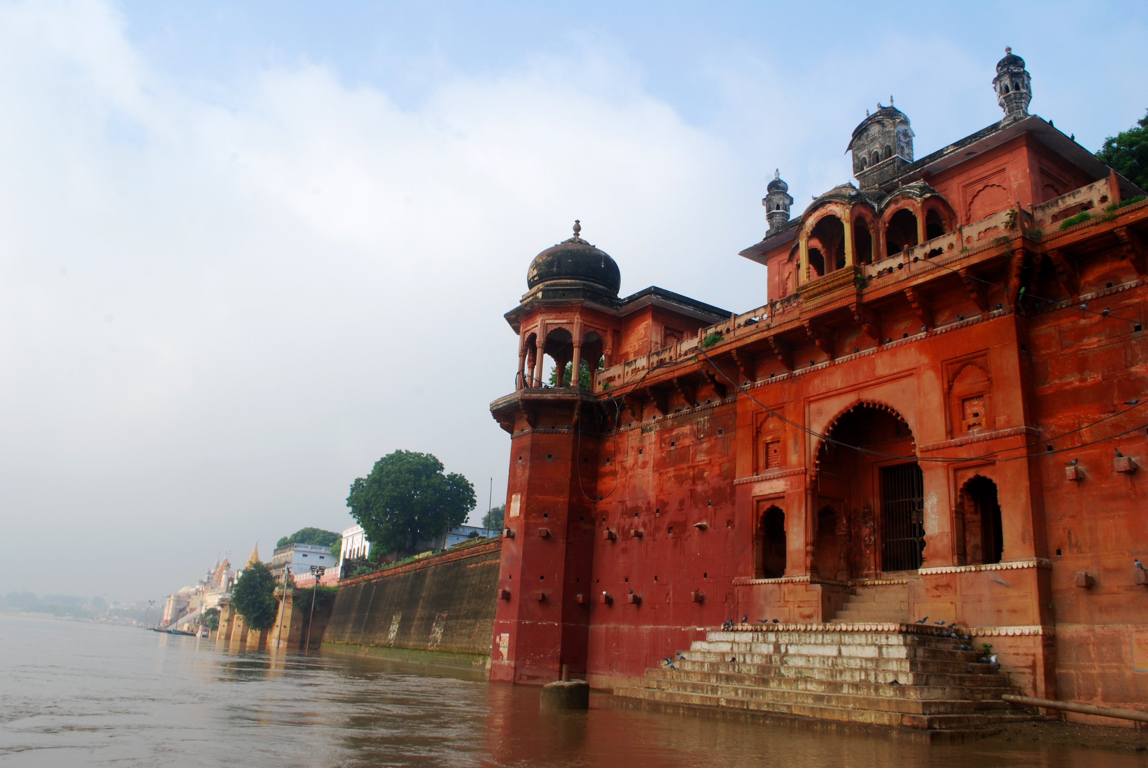 View of the bathing ghats, Varanasi, India.